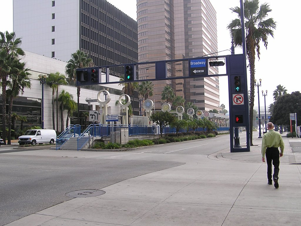 LACMTA Blue Line 1St Street Station in Long Beach